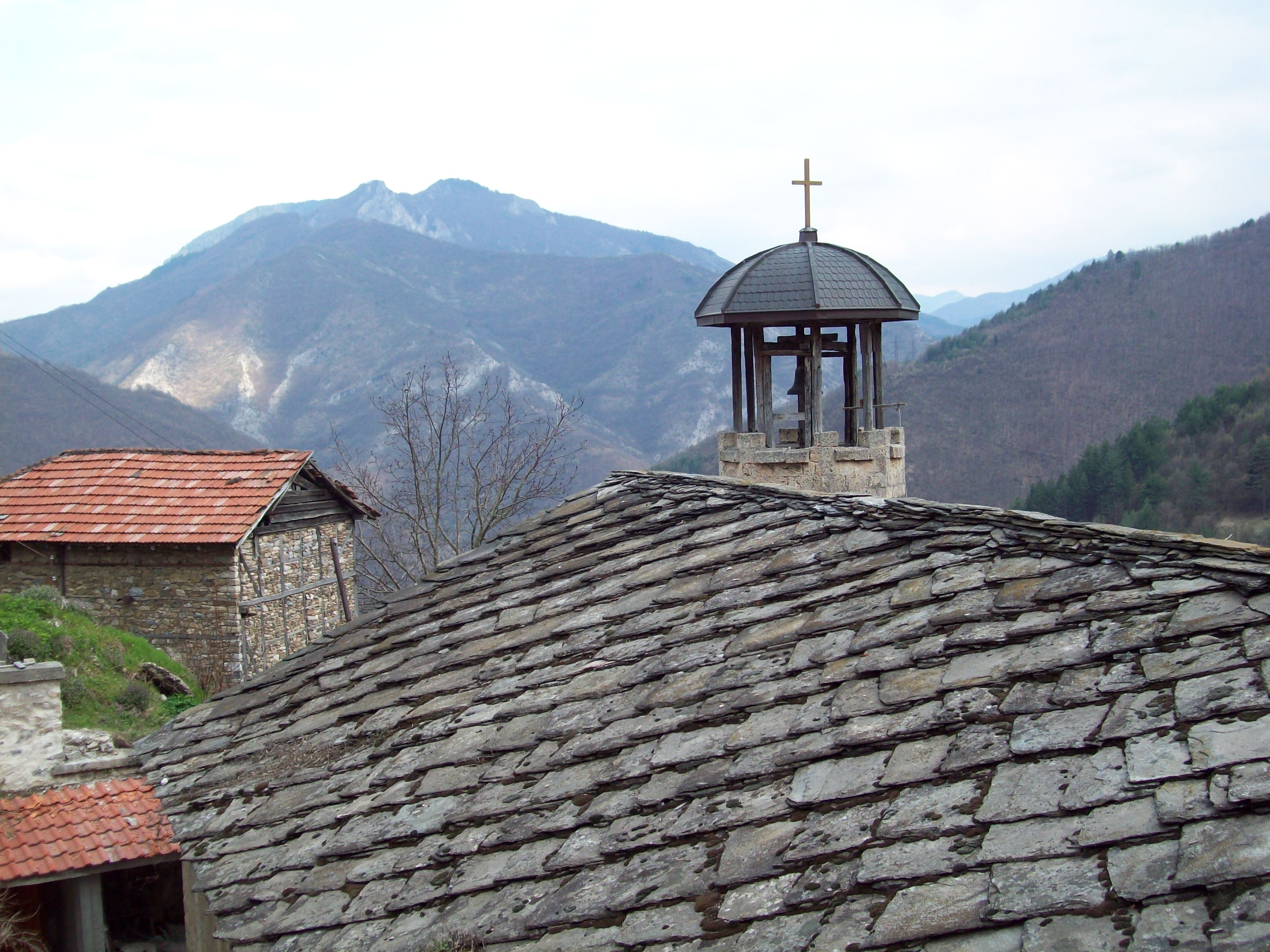 Village Yugovo. View from the church.